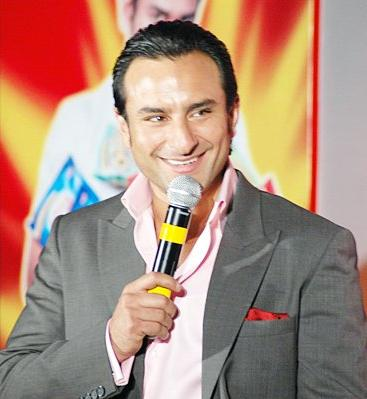 Indian actor Saif Ali Khan